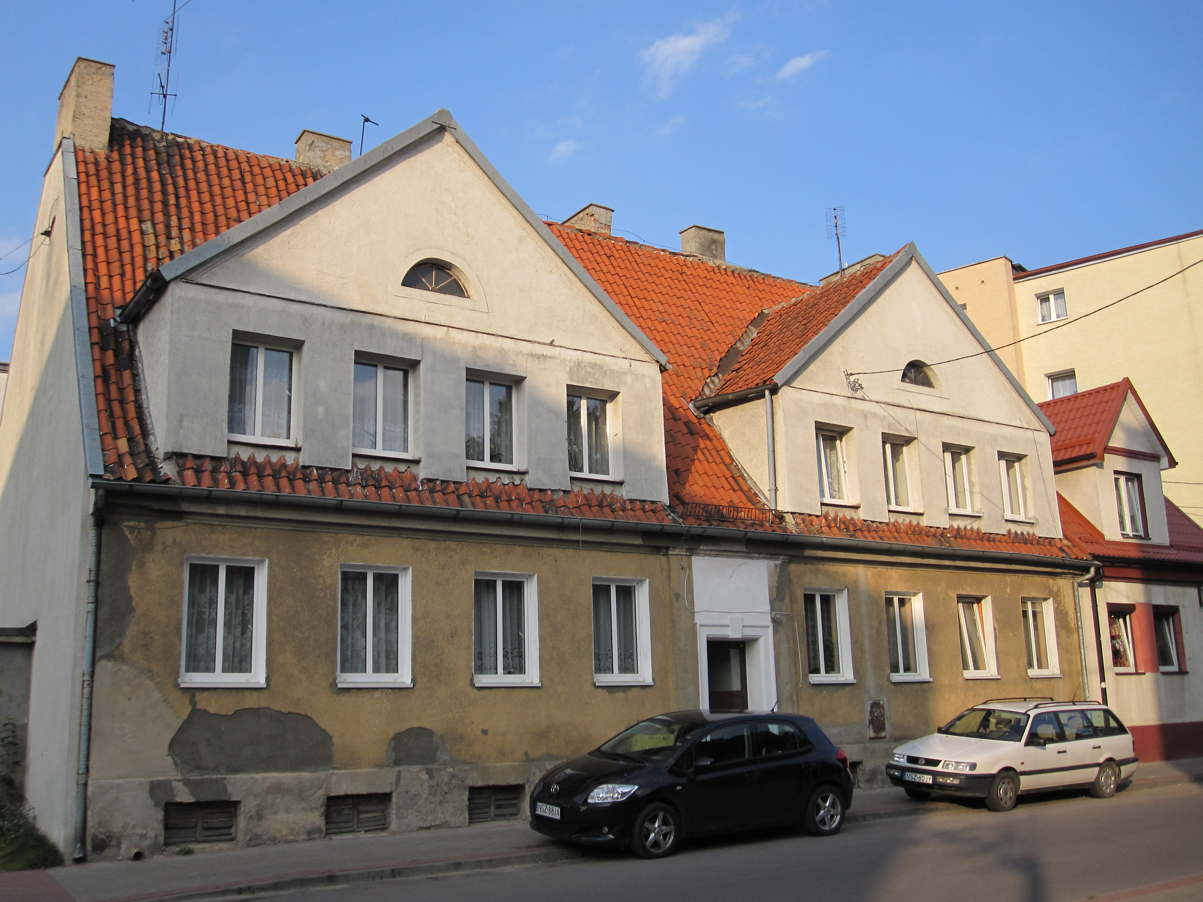 Szczytno - building on the 2 Lipperta street